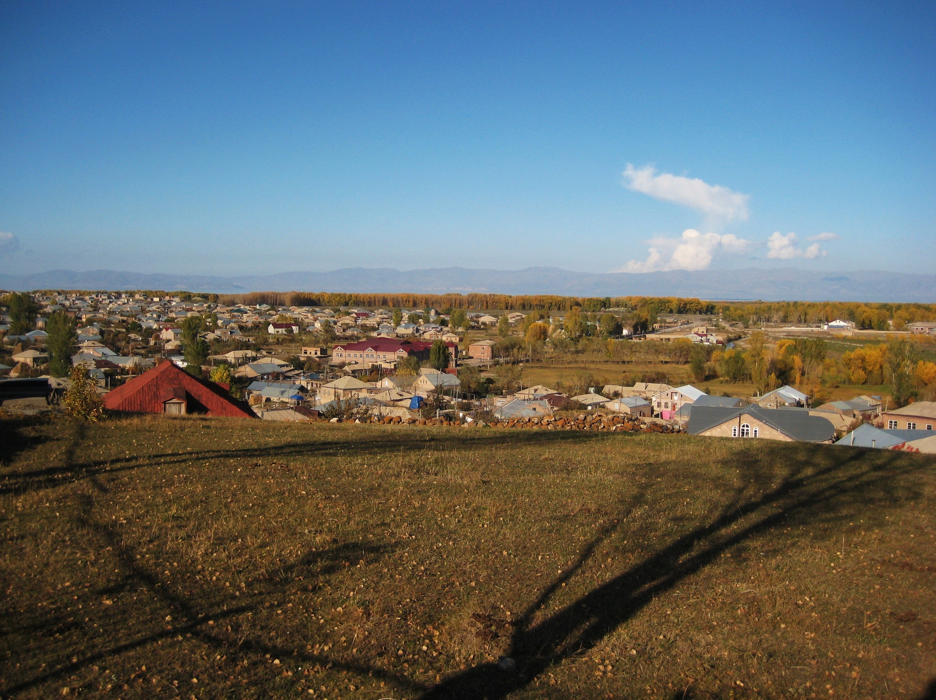 The village of Lichk